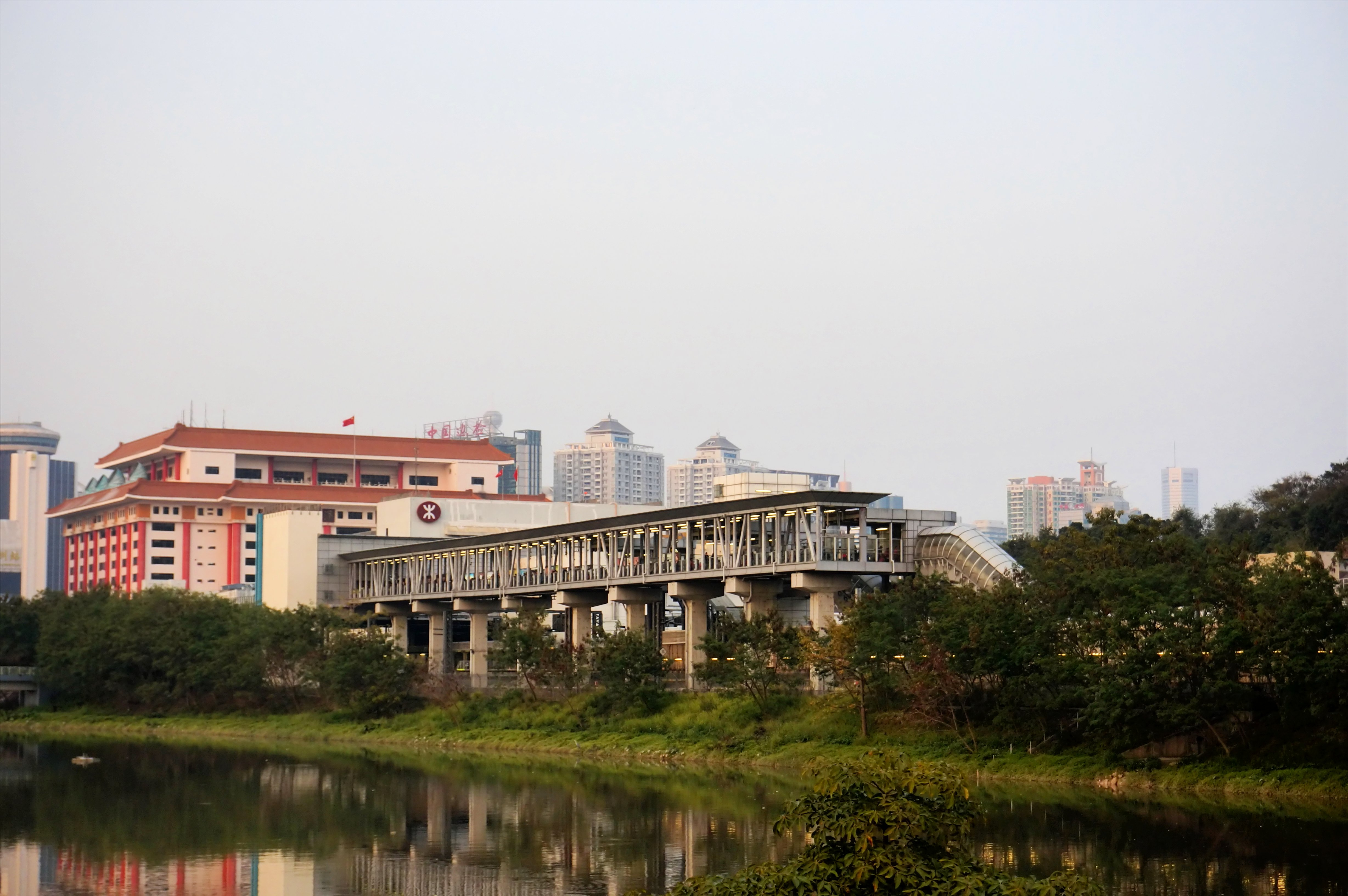 Exterior of Lo Wu Station, MTR East Rail Line 中文（香港）: 港鐵東鐵線羅湖站外貌